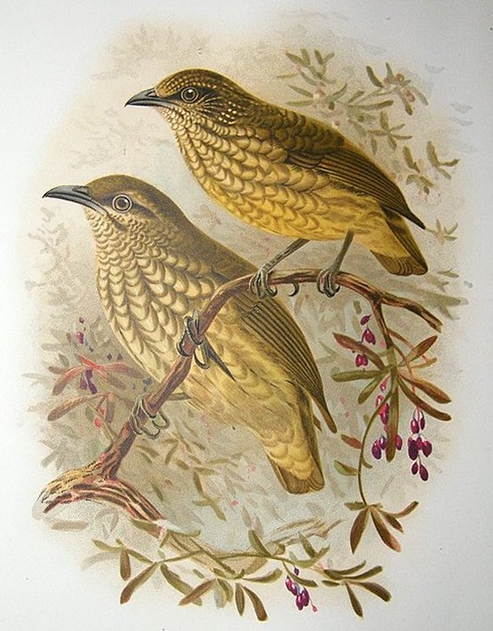 1. Philepitta castanea (Velvet Asity) 2. Philepitta schlegeli (Schlegel's Asity)